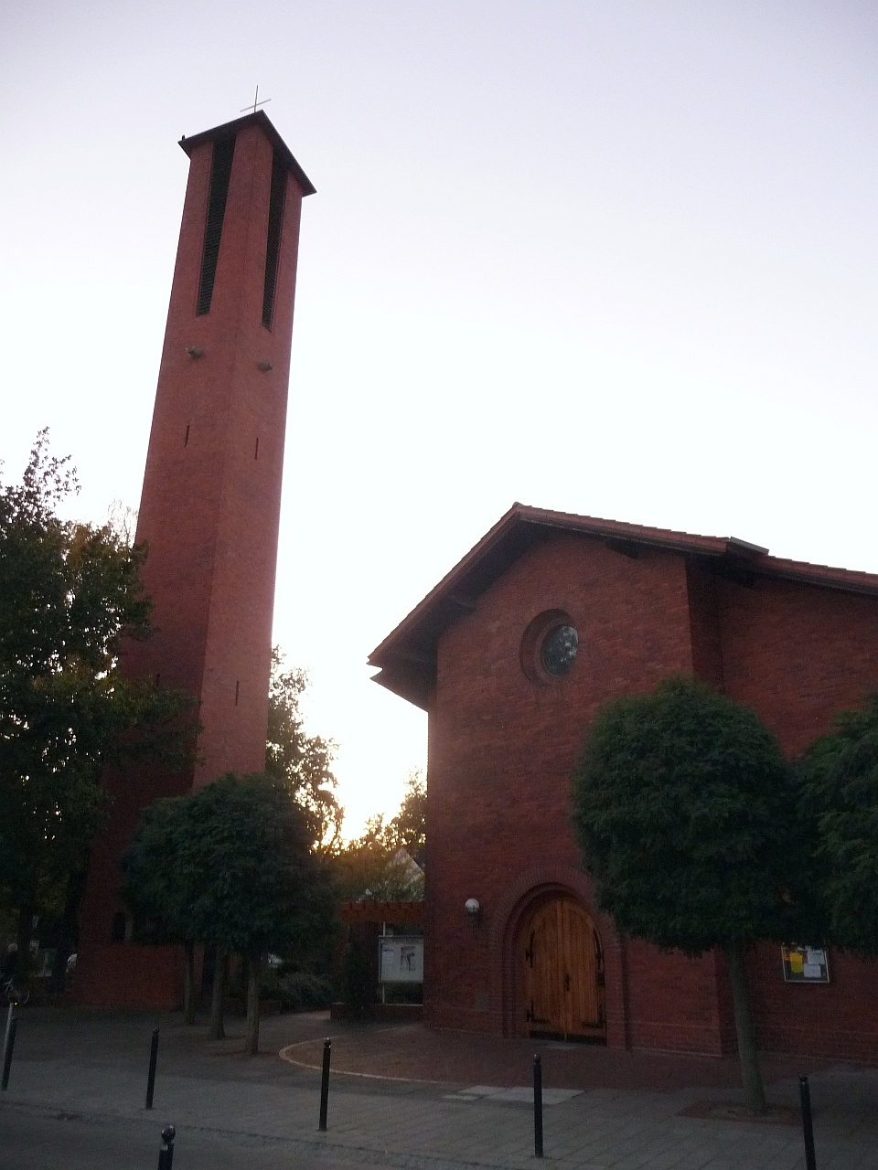 church St. Georg in Bremen-Horn-Lehe